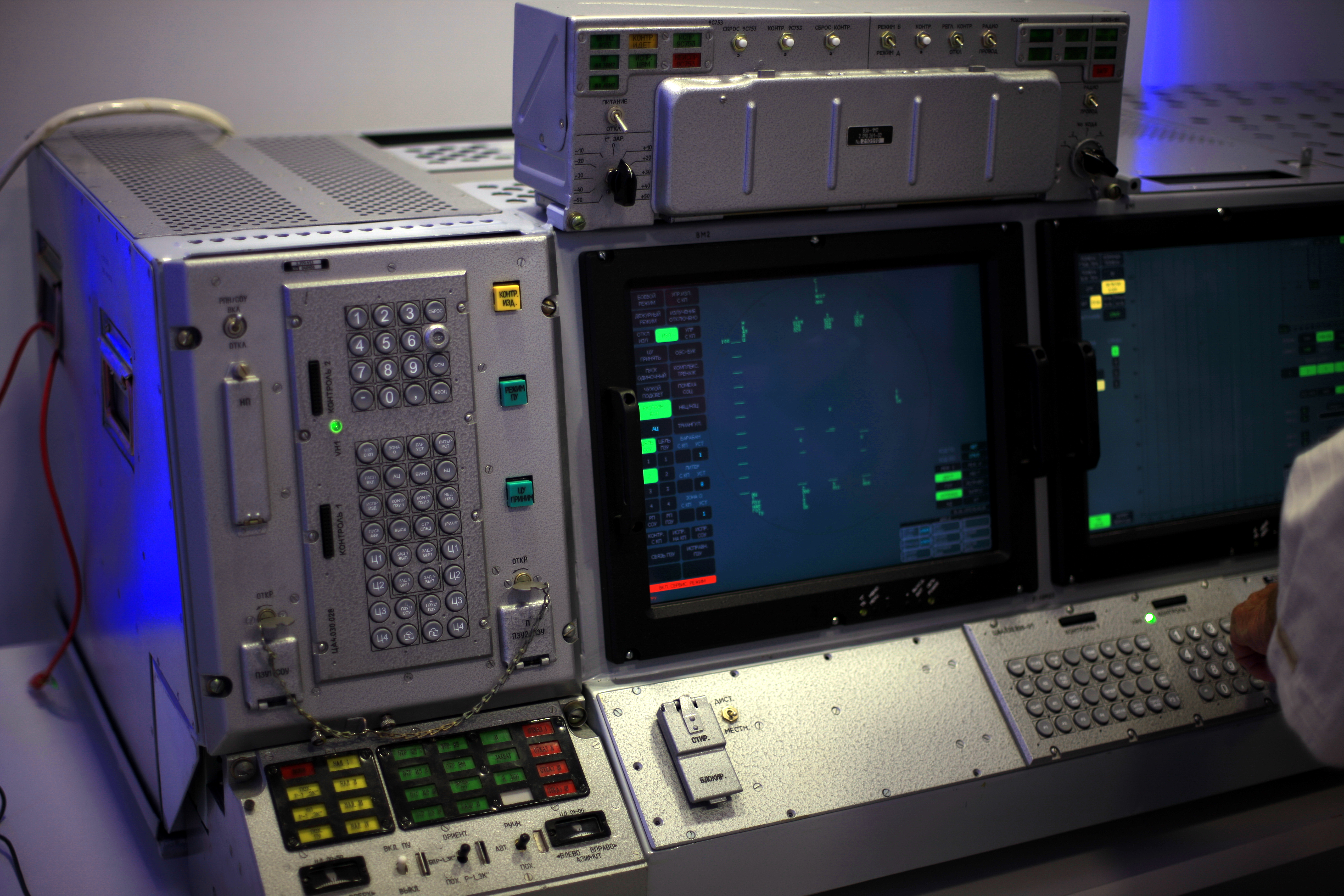 Control console of Buk-M2E missile system TELAR. Simulator at 2011 MAKS Airshow.